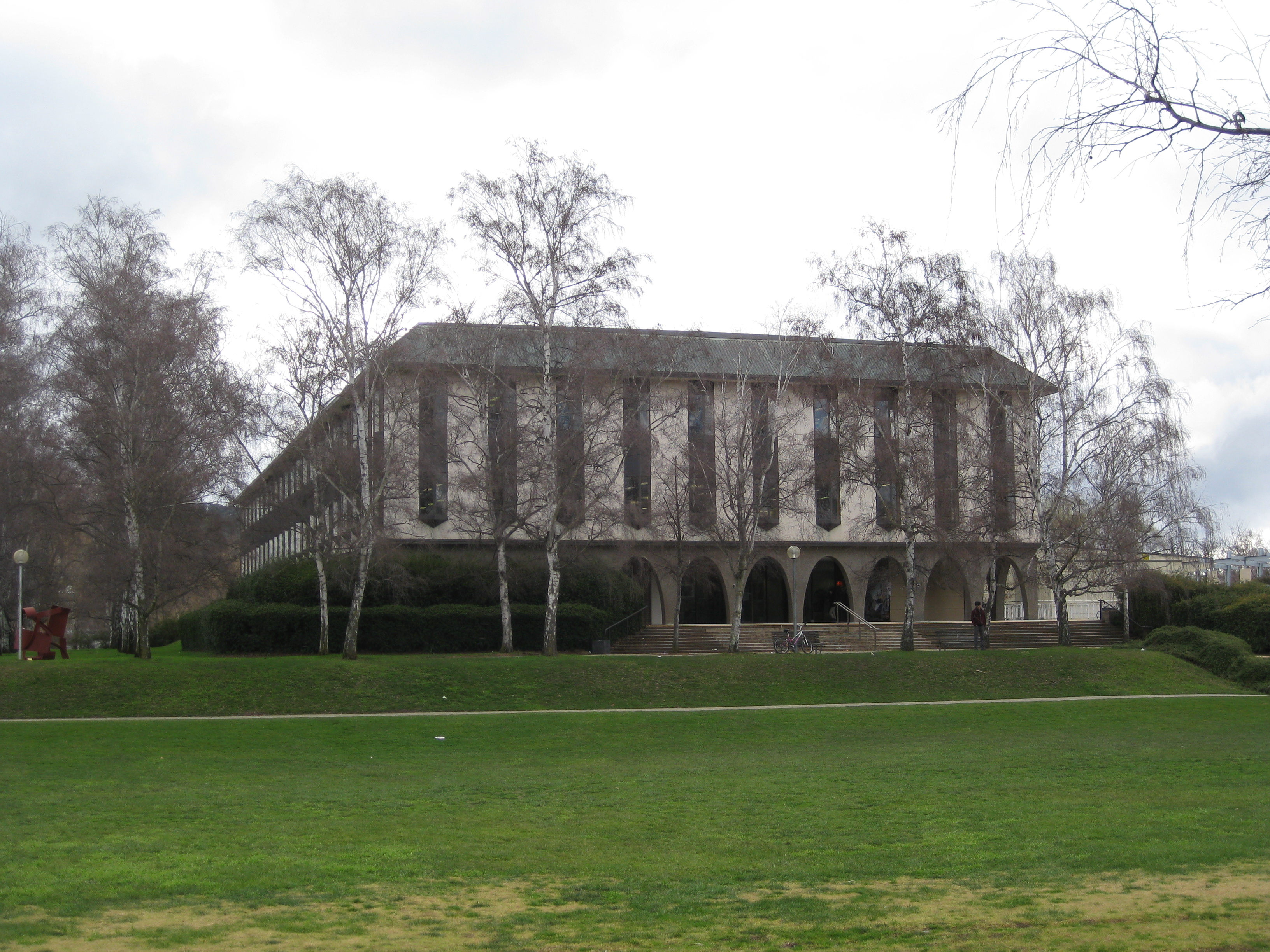 The Chifley Library at the Australian National University